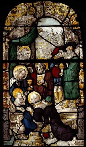 Adoration of the Magi, stained glass panel from Steinfeld Abbey